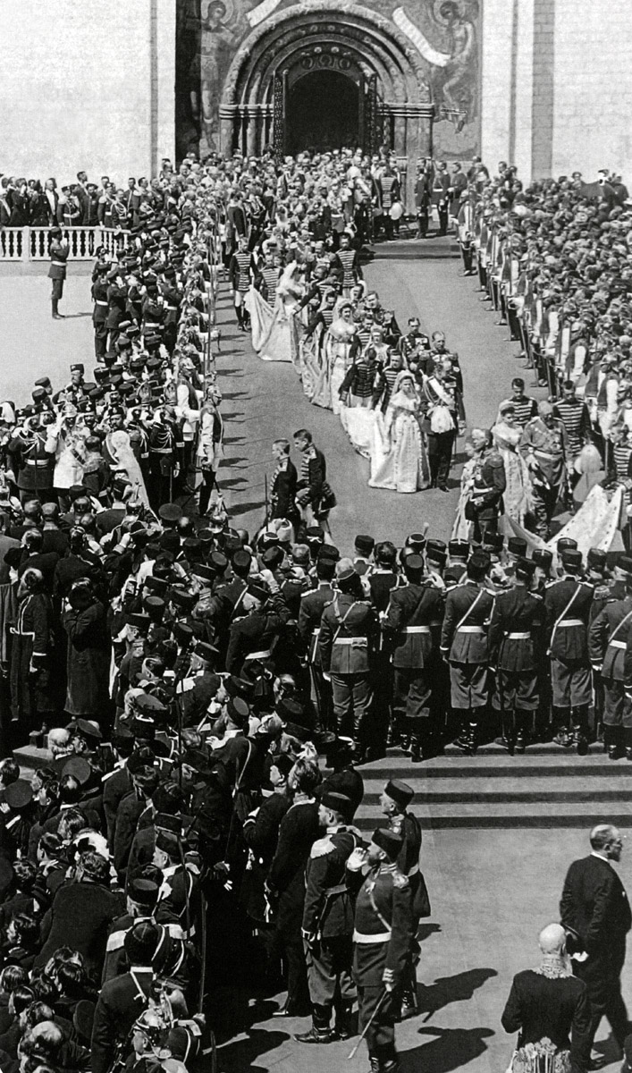 May 14, 1896, coronation of Nicholas II. Leaving the Dormition Cathedral right after the event.